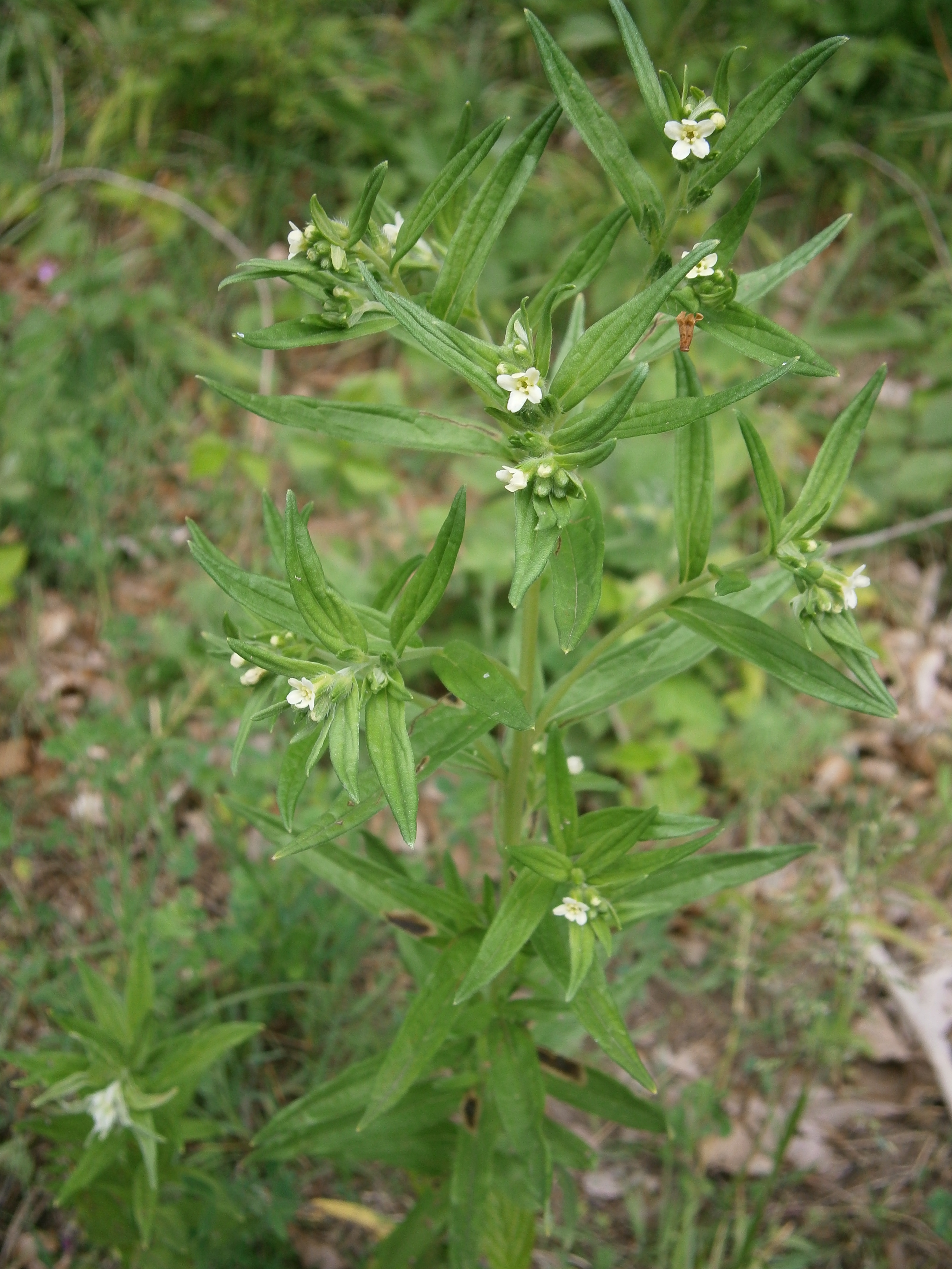 Lithospermum officinale